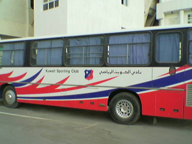 Kuwait SC football team bus